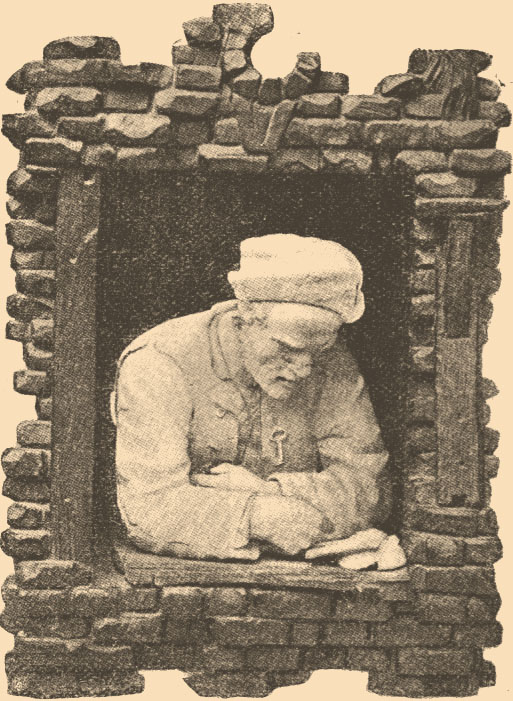 Illustration from Brockhaus and Efron Jewish Encyclopedia (1906—1913)